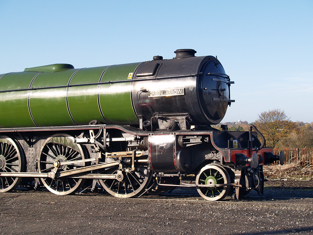 National Railway Museum's London and North Eastern Railway Gresley 2-6-2 ?V2? class locomotive number 4771 GREEN ARROW at Buckley Wells level crossing at Bury. Tuesday 6th November 2007